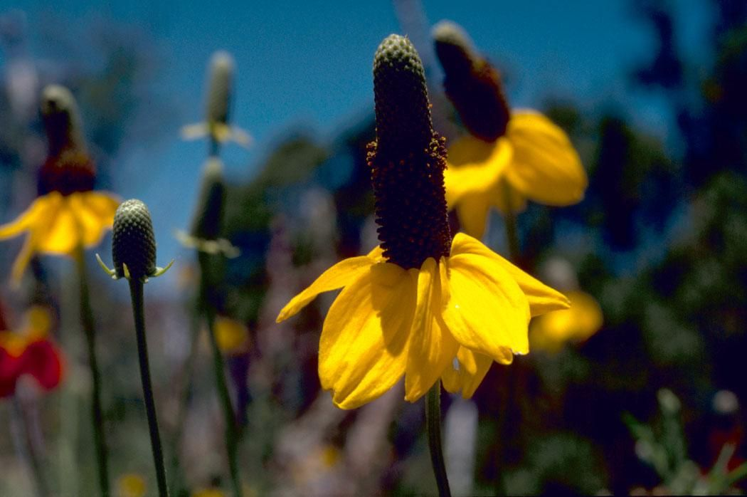 Image title: Ratibida Image from Public domain images website